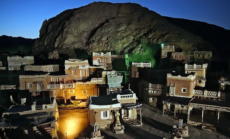 Muhammad: The Messenger of God location film location in Qom